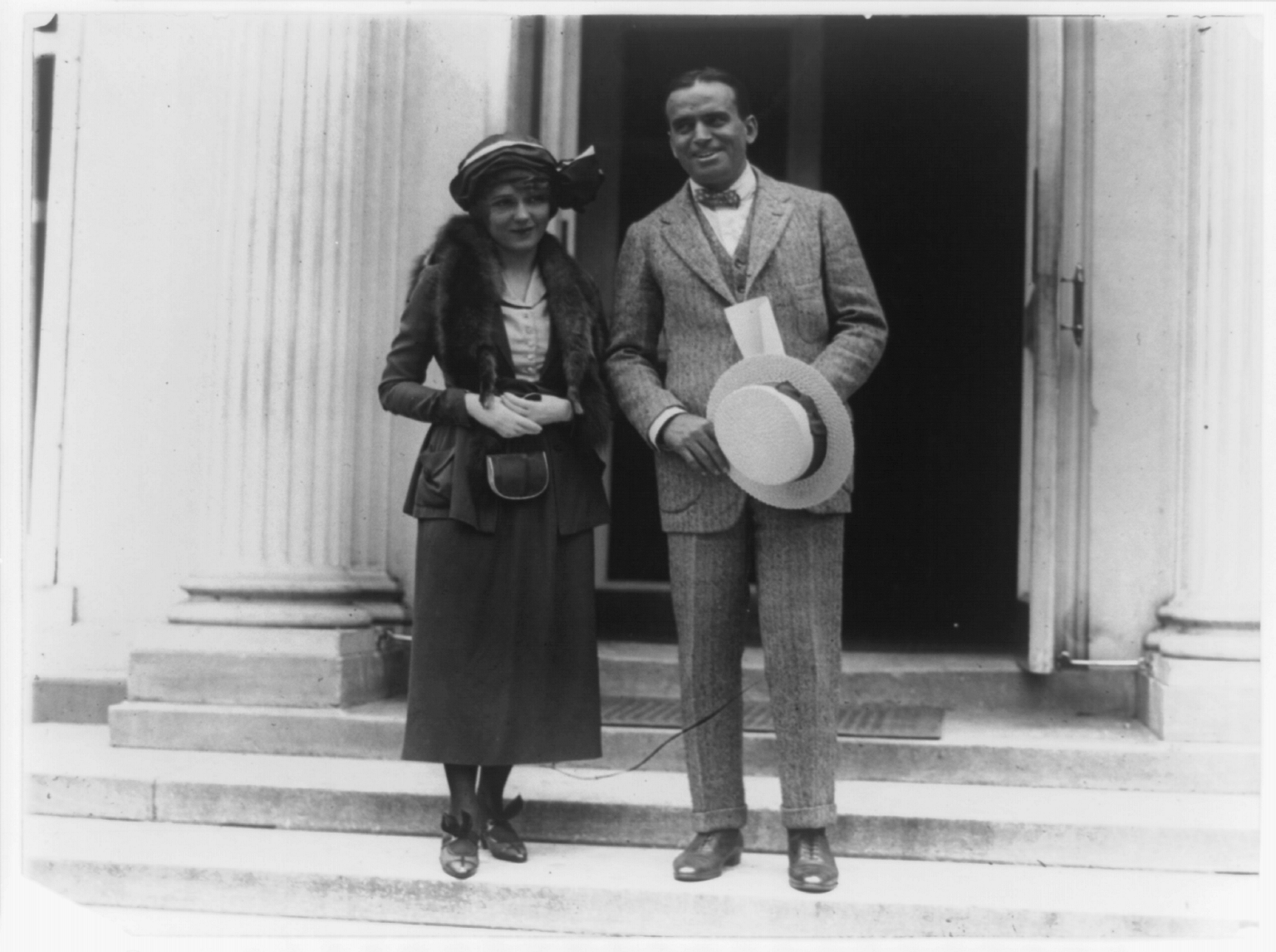 Douglas Fairbanks and Mary Pickford standing, full-length, outside the White House.